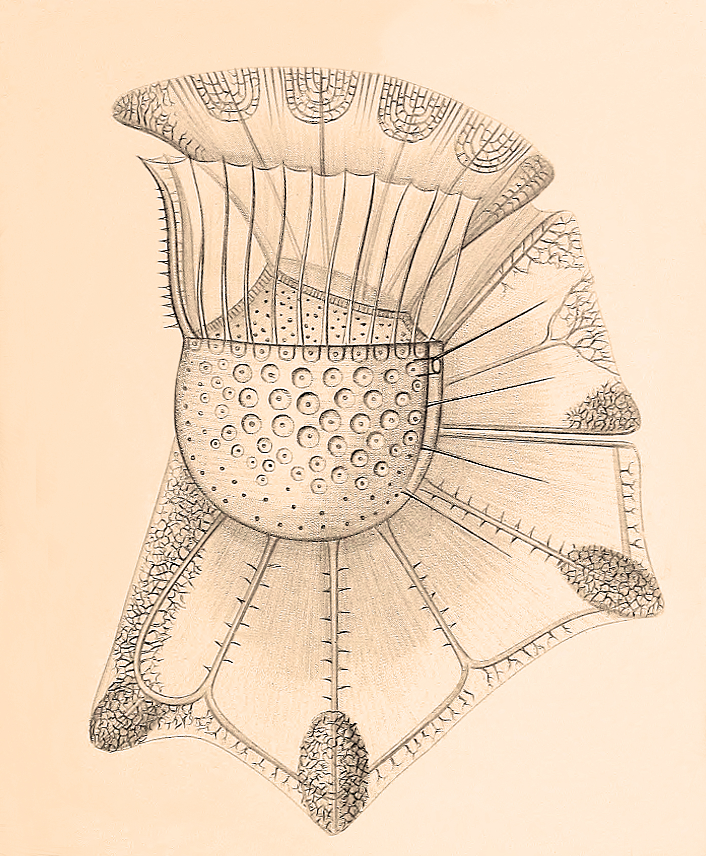 From the original species description: Figure 4 from plate 23 of Stein, F.R. (1883) Der Organismus der Arthrodelen Flagellaten. II. Hälfte. 30 pp & plates.